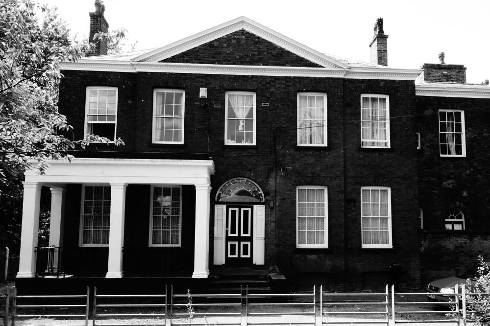 Hulme Barracks in St George's Park, Manchester